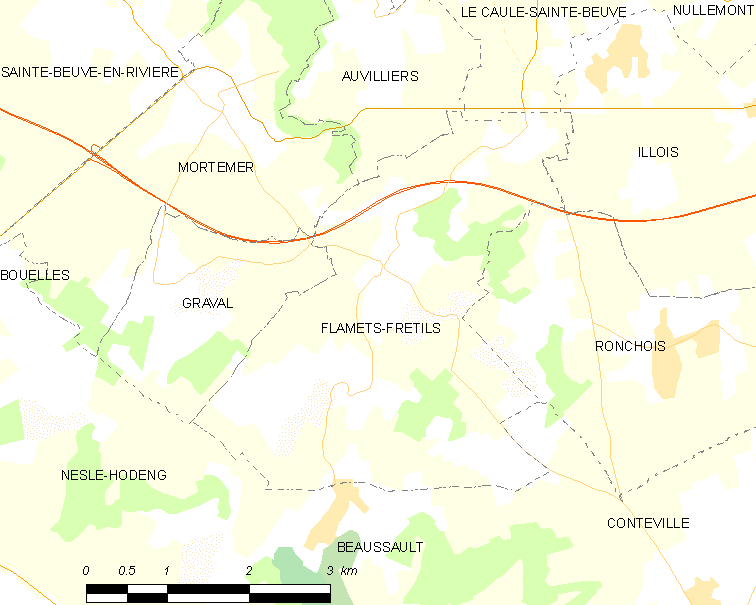 Map of French municipality Flamets-Frétils